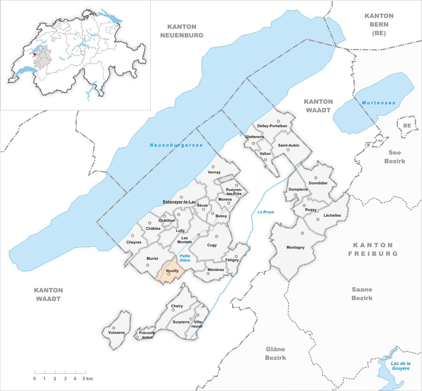 Municipality Nuvilly